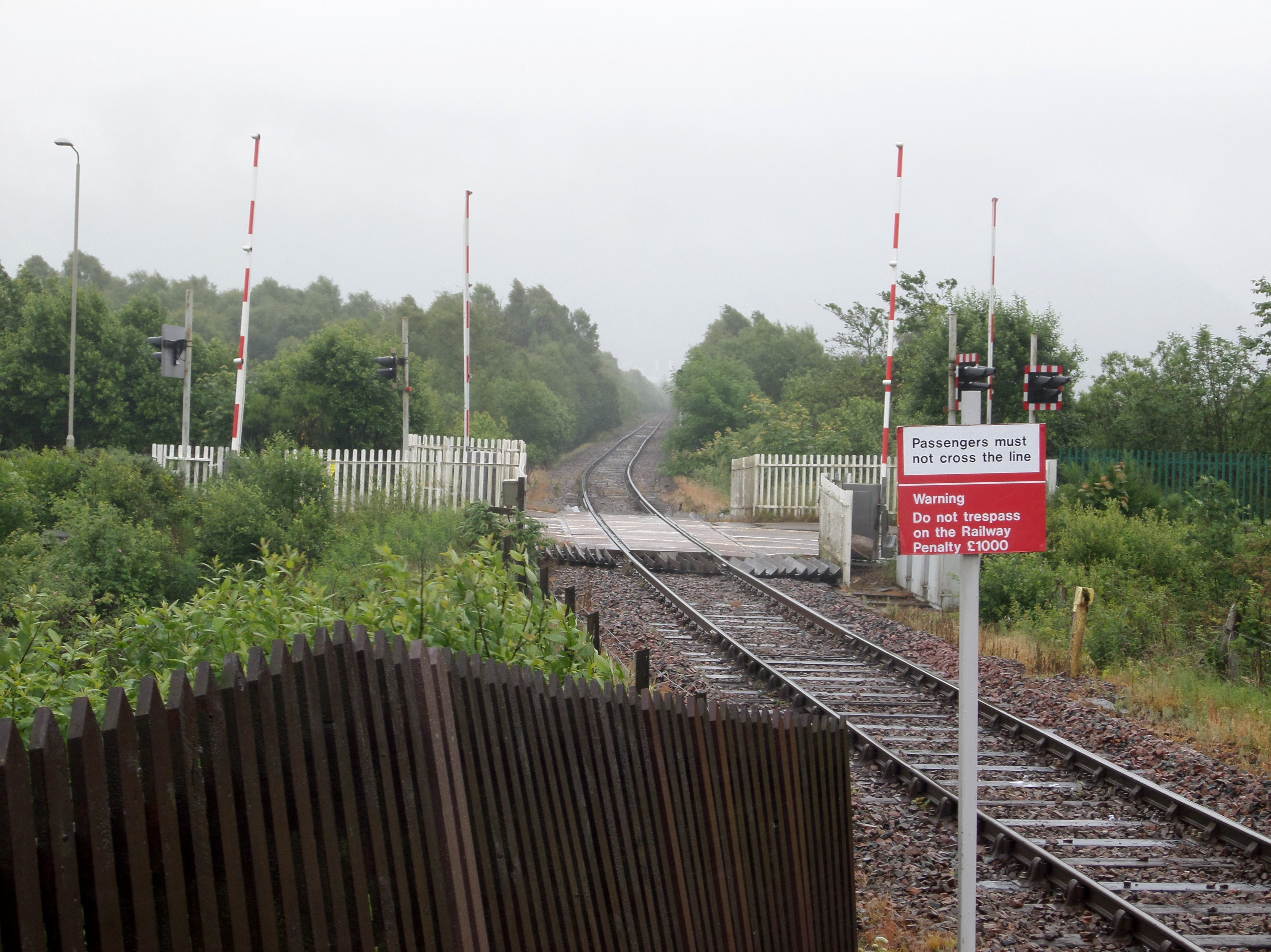 Banavie railway station and level crossing, Highlands, Scotland. View towards Fort William. View across Corpach Moss with the site of the second 'Banavie Junction' on the left in the woods.